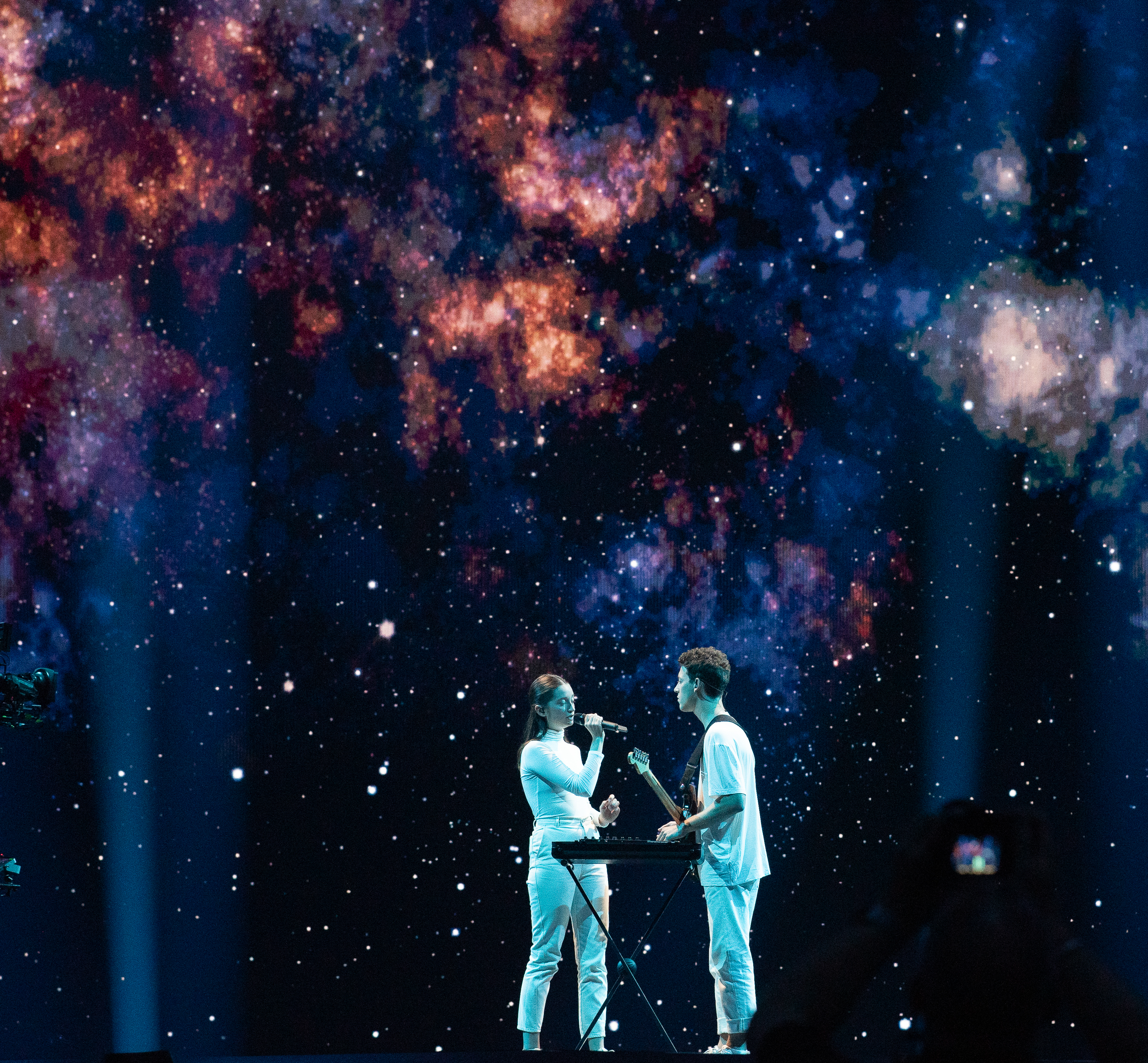 At the 2019 Eurovision Song Contest Semi-final 1 dress rehearsal